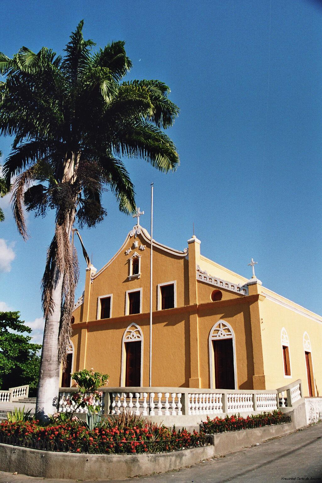 Palmácia - Saint Francis of Assisi